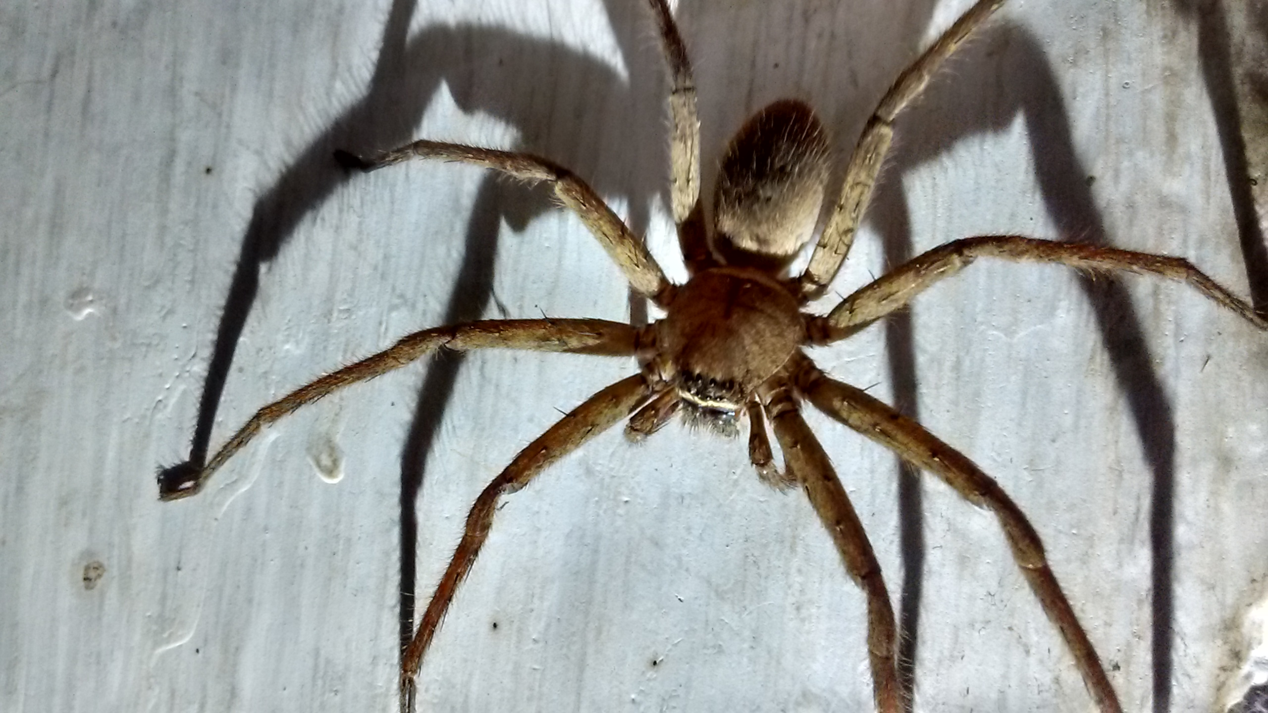 Heteropoda is a genus of spiders in the family Sparassidae, the huntsman spiders. They are mainly distributed in tropical Asia and Australia, while at least one species, H. venatoria, has a cosmopolitan distribution,[1] and H. variegata occurs in the Mediterranean.[2] These spiders catch and eat insects, but in a laboratory study one species readily ate fish and tadpoles when offered,[1] and H. venatoria has been known to eat scorpions and bats.[3] The largest species in the genus, H. maxima, is about 4.6 centimeters long but has a legspan of up to 30 centimeters, therefore being the largest of any extant spider